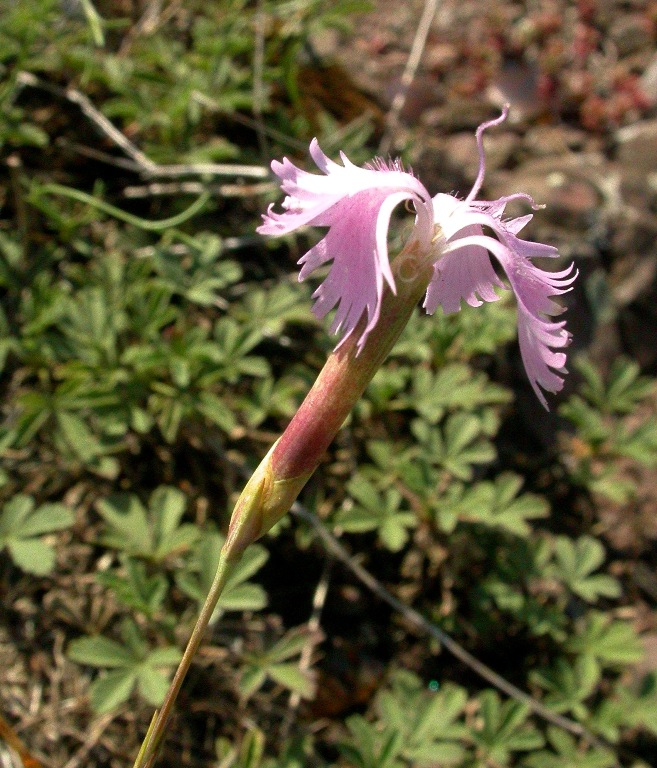 Flower of Dianthus moravicus in Floríánek near Moravský Krumlov, Czech Republic